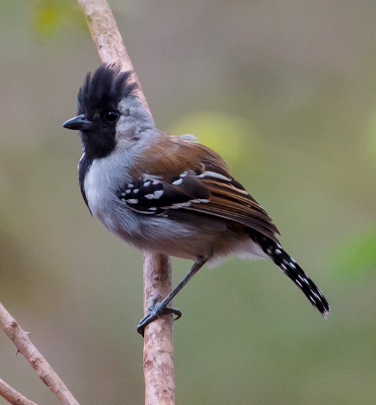 Silvery-cheeked Antshrike Sakesphorus cristatus